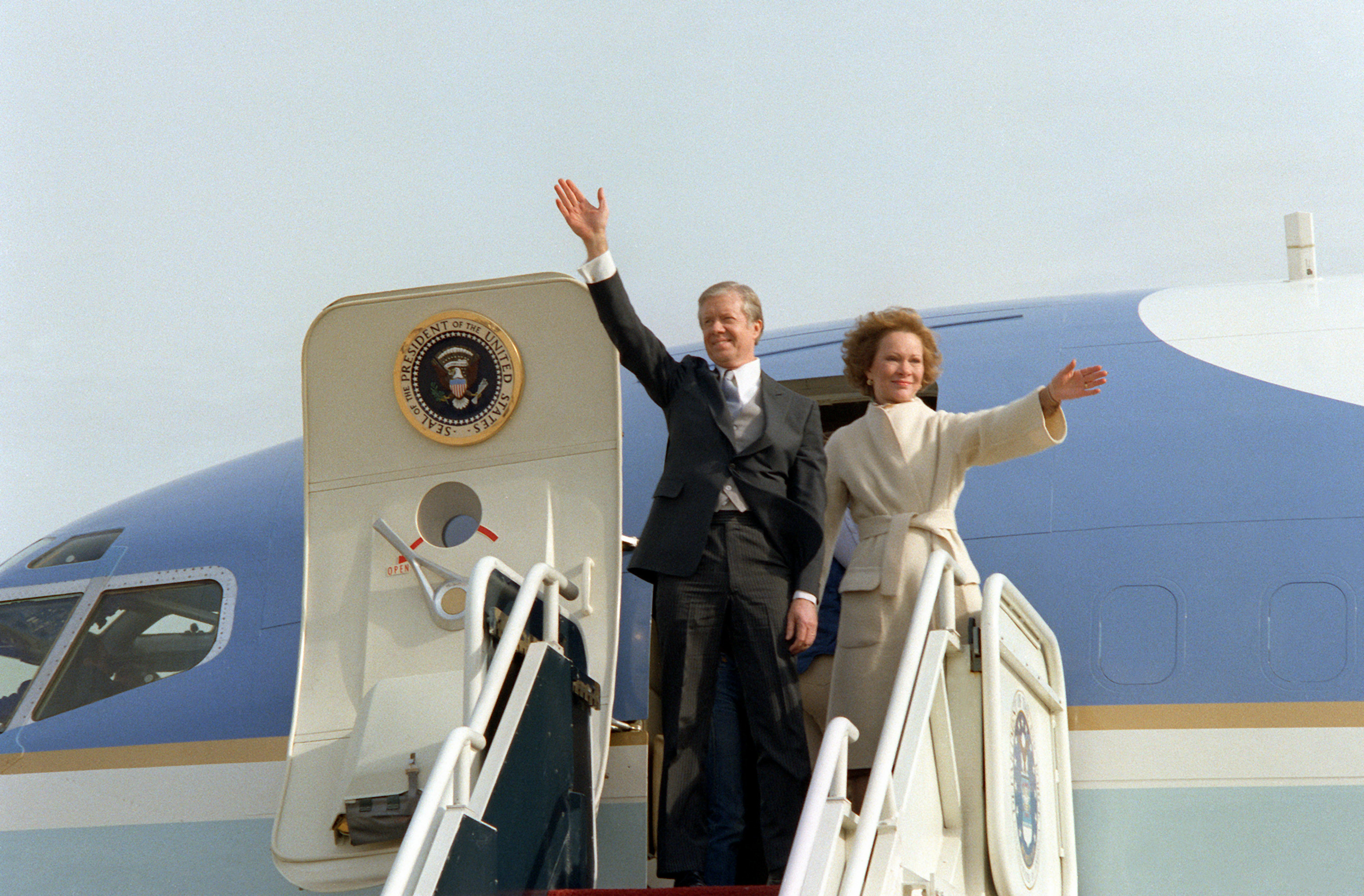 Former President Jimmy Carter and his wife Rosalynn, wave from the top of the aircraft steps as they depart Andrews Air Force Base at the conclusion of President Ronald Reagan's inauguration ceremony.